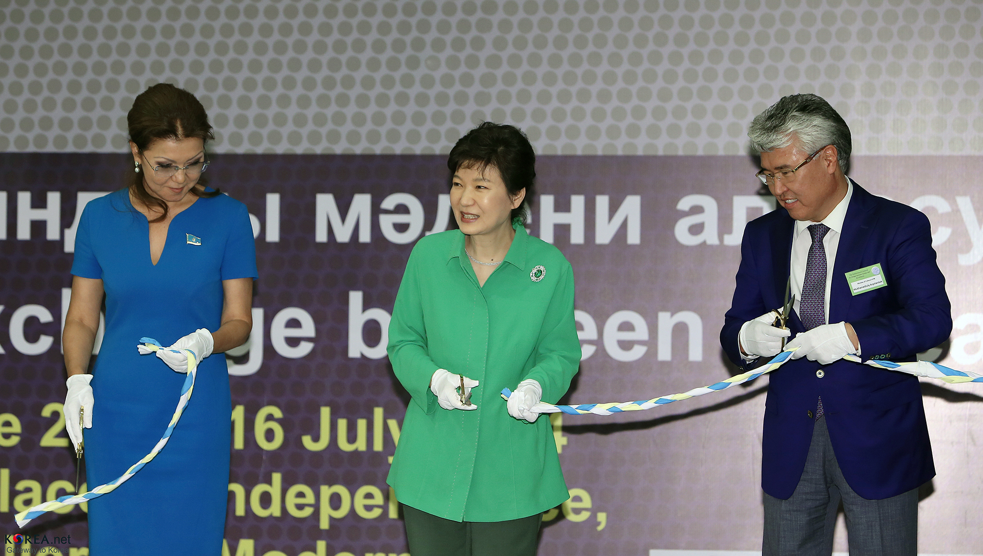 ‘PEOPLE’, The exhibition for Modern ethnic Korean artists June 19, 2014 Palace of Independence, Nur-Sultan, Kazakhstan Cheong Wa Dae Pool This official Republic of Korea photograph is CC-BY-SA-2.0-licensed, so while restrictions such as personality or privacy rights may apply, in general, manipulations are allowed. If you require a photograph without a watermark, please use Flickr e-mail. 고려인 및 한국인 현대작가 전시회 ‘사람들(PEOPLE)’ 개막식 2014-06-019 독립궁전, 아스타나, 카자흐스탄 청와대 풀(Pool)